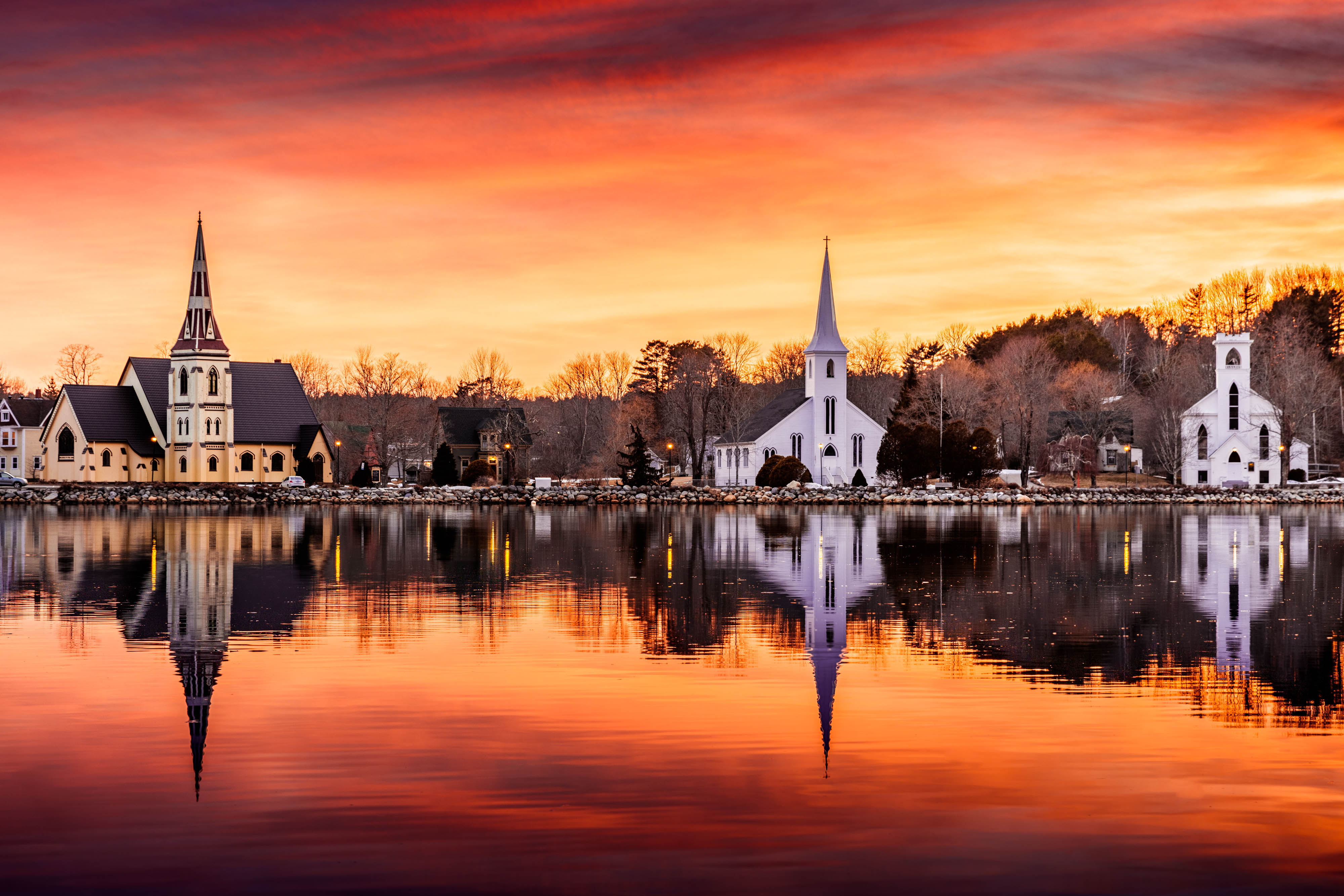 Stunning view of three churches that have made Mahone Bay famous. The right time of year results in amazing sunsets. Usually best in early spring.